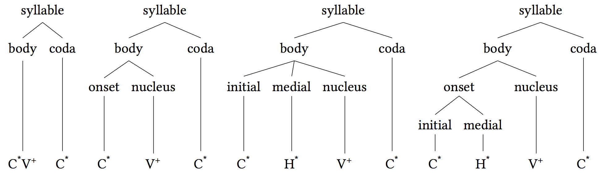 Syllable structure with division into body (or core) and coda as tree diagrams according to several phonologic traditions and theories.